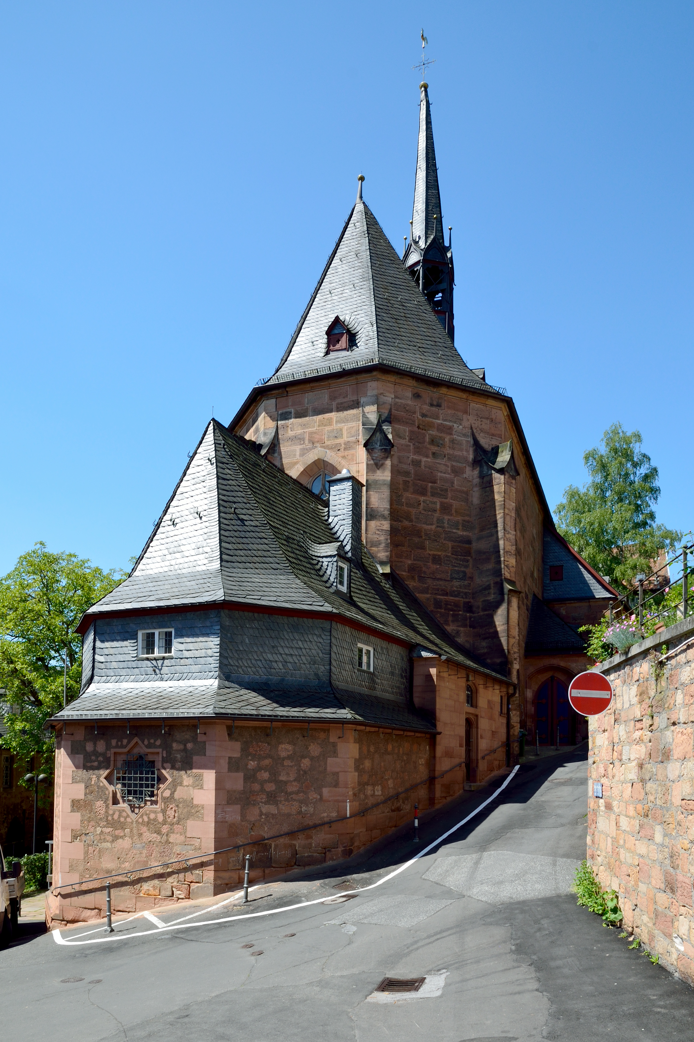 St John's Church in Marburg from east